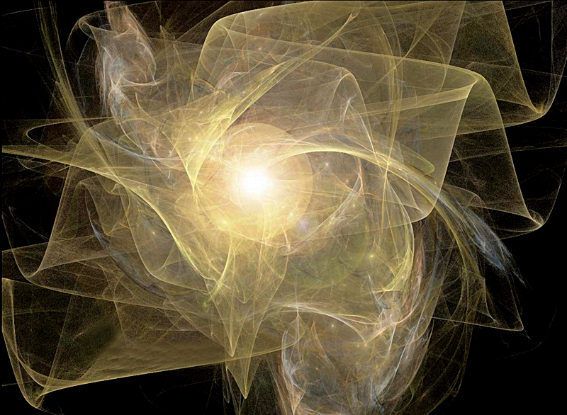 fractal art by alexa szlavics